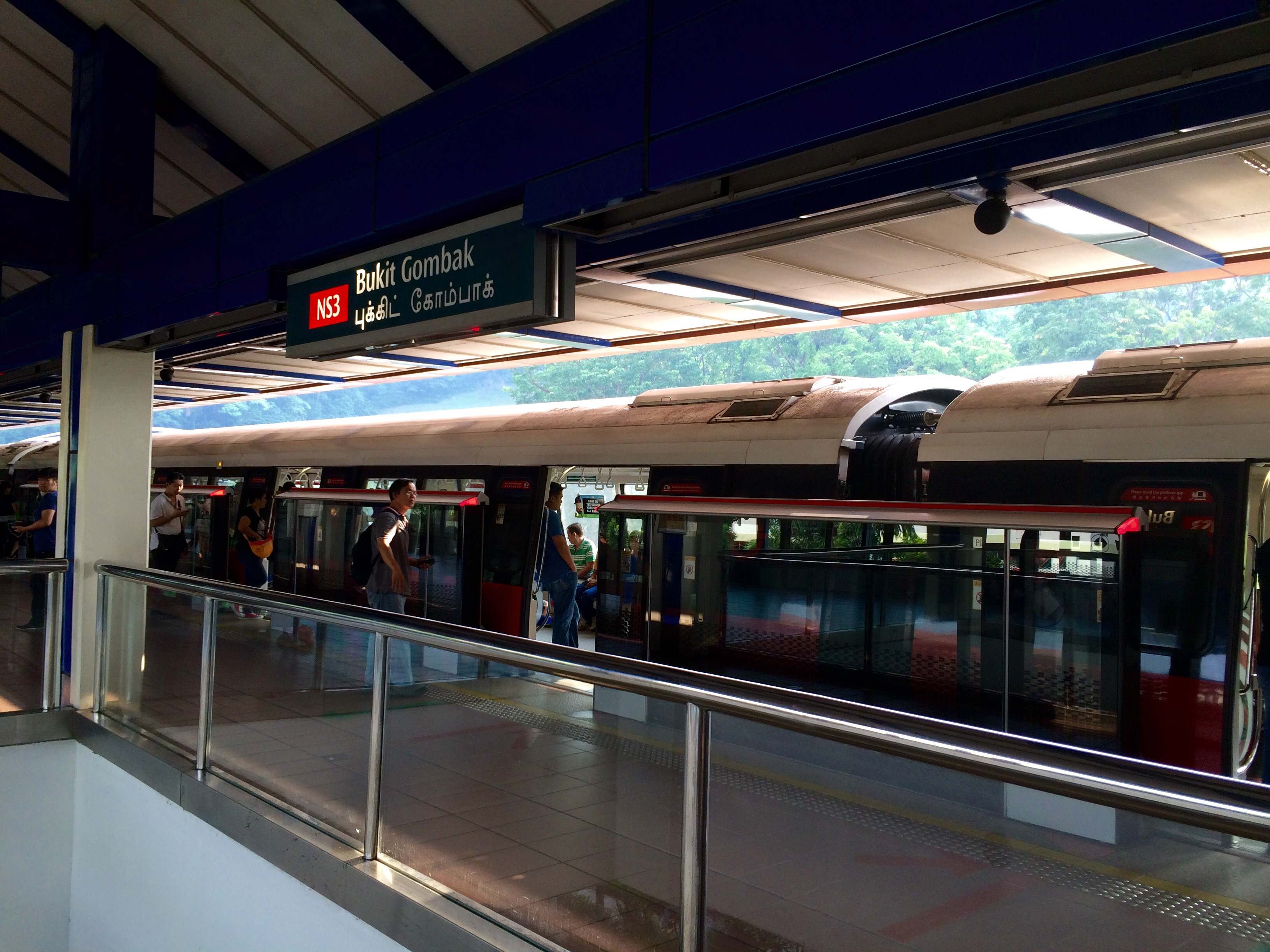 Bukit Gombak MRT station in 2015